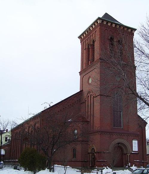 My 2010 cropped photo of Christ The King Presbyterian Church in Cambridge, Massachusetts, near Central Square. It is located on Prospect Street and was formerly Prospect Congregational Church.